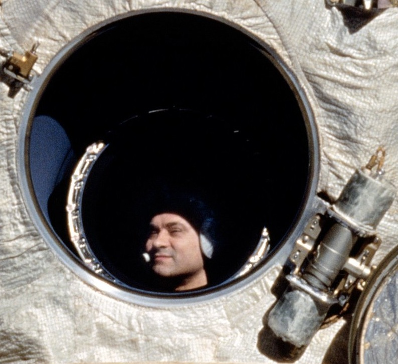 Cosmonaut Valeriy V. Polyakov, who boarded Russia's Mir space station on January 8, 1994, looks out Mir's window during rendezvous operations with the Space Shuttle Discovery.